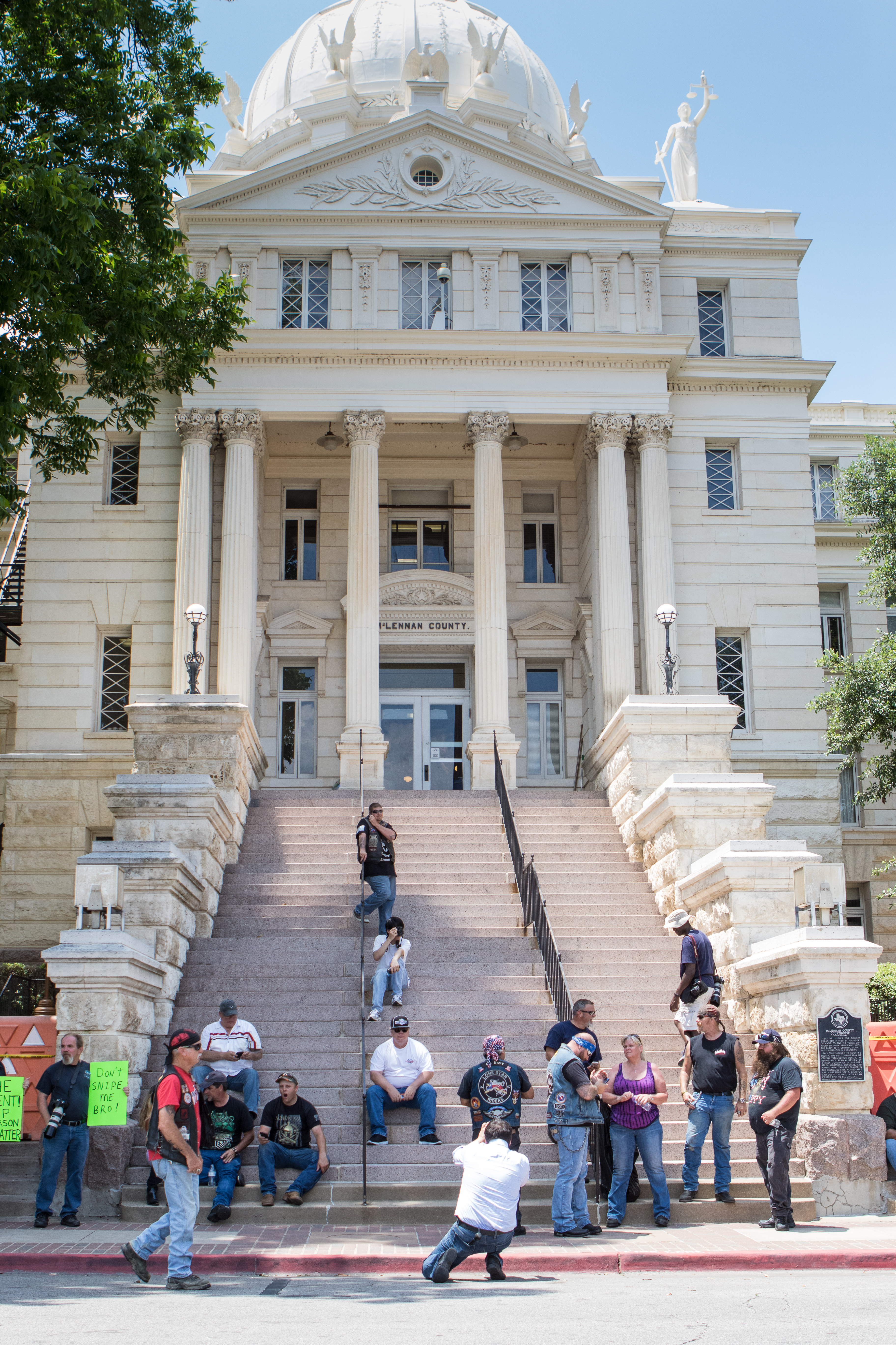 Protesting Bikers sitting in front of the McLennan County Court House